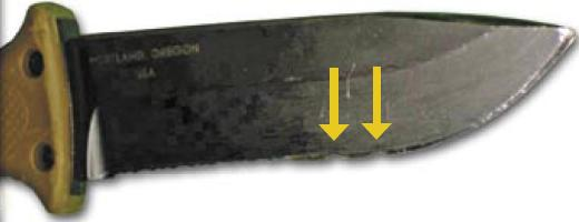 From SFC Dillard Johnson's Gerber LMF II ASEK, used to sever a 220 volt line in combat in Iraq. Arrows point to damage done by the current. The electrically insulated handle may have saved SFC Johnson's life, and cutting the lines potentially saved the lives of all the members of his patrol.